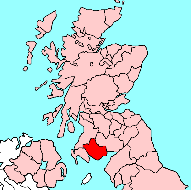 Kirkcudbrightshire